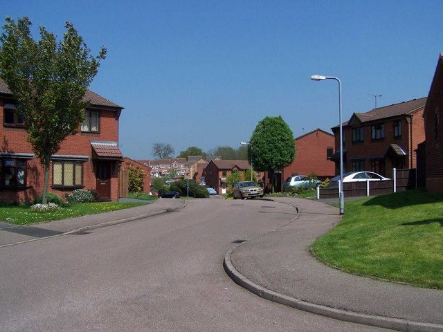 Heathbank Drive, Huntington